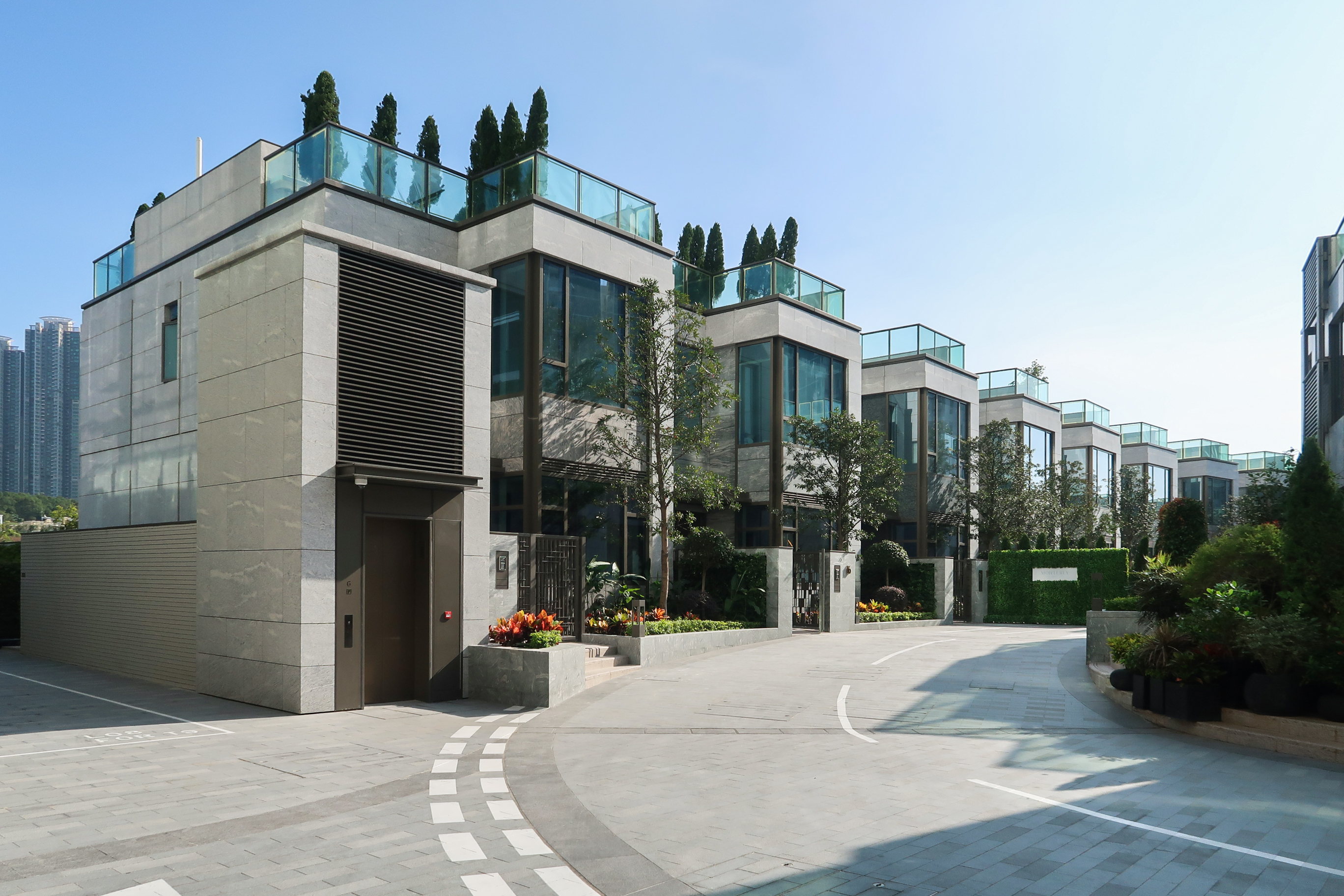 MONTEREY House